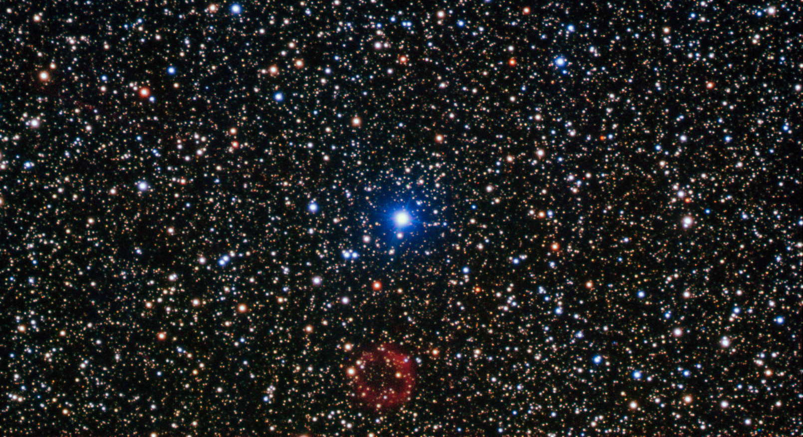 The bright star in the centre of this image is not the star of this show. At the bottom centre is a rather unremarkable smudge of red which is in fact a rare and valuable object. First discovered by amateur Japanese astronomer, Yukio Sakurai, in 1996, and noted as a nova-like object, Sakurai’s discovery turned out to be far more interesting than the supernova he initially supposed it to be. The object is actually a small white dwarf star undergoing a helium flash — one of only a handful of examples of such an event ever witnessed by astronomers. Normally, the white dwarf stage is the last in the life cycle of a low-mass star. In some cases, however, the star reignites in a helium flash and expands to return to a red giant state, ejecting huge amounts of gas and dust in the process, before once again shrinking to become a white dwarf. It is a dramatic and short-lived series of events, and Sakurai’s Object has allowed astronomers a very rare opportunity to study the events in real time. The white dwarf emits sufficient ultraviolet radiation to illuminate the gas it has expelled, which can just be seen in this image as the ring of red material. This image was taken using the FORS instrument, mounted on ESO’s Very Large Telescope.